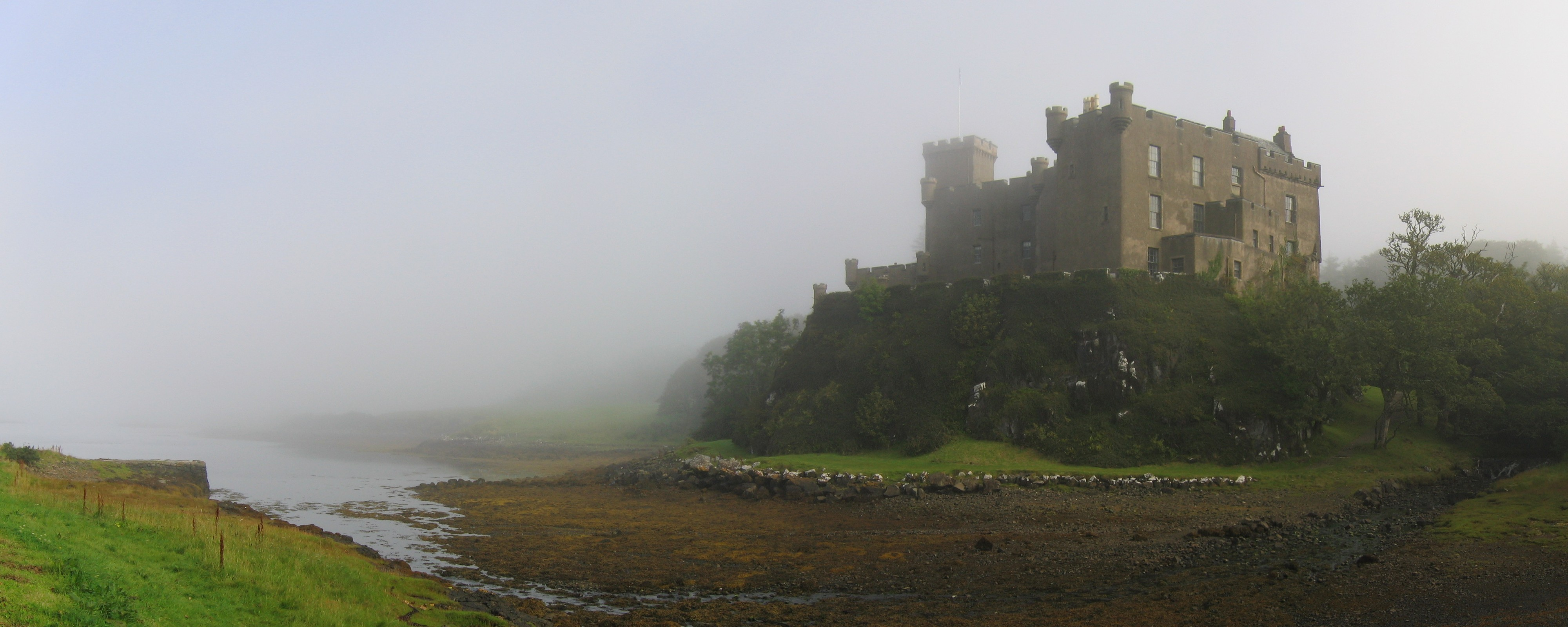 Dunvegan Castle on the Isle of Skye in the mist. Panoramic image made from own photos using hugin and enblend. Enblend-cloned some sky in the top left corner.